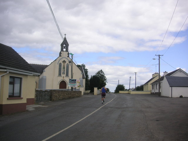 Church of Whitehall Church and houses of Whitehall. This picture was taken during the Longford Marathon 2007.